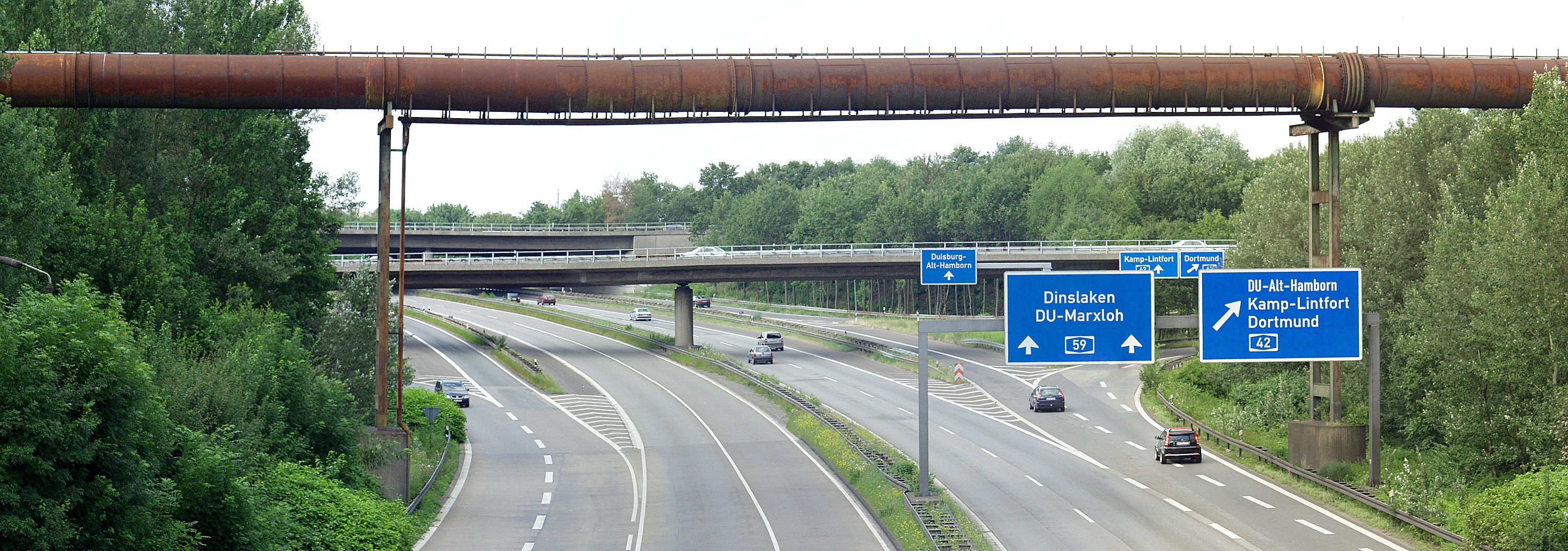 Motorway A59 / A42 in Duisburg, Germany, seen from Landschaftspark Duisburg-Nord. A gas pipeline of the former smelter is crossing the motorway